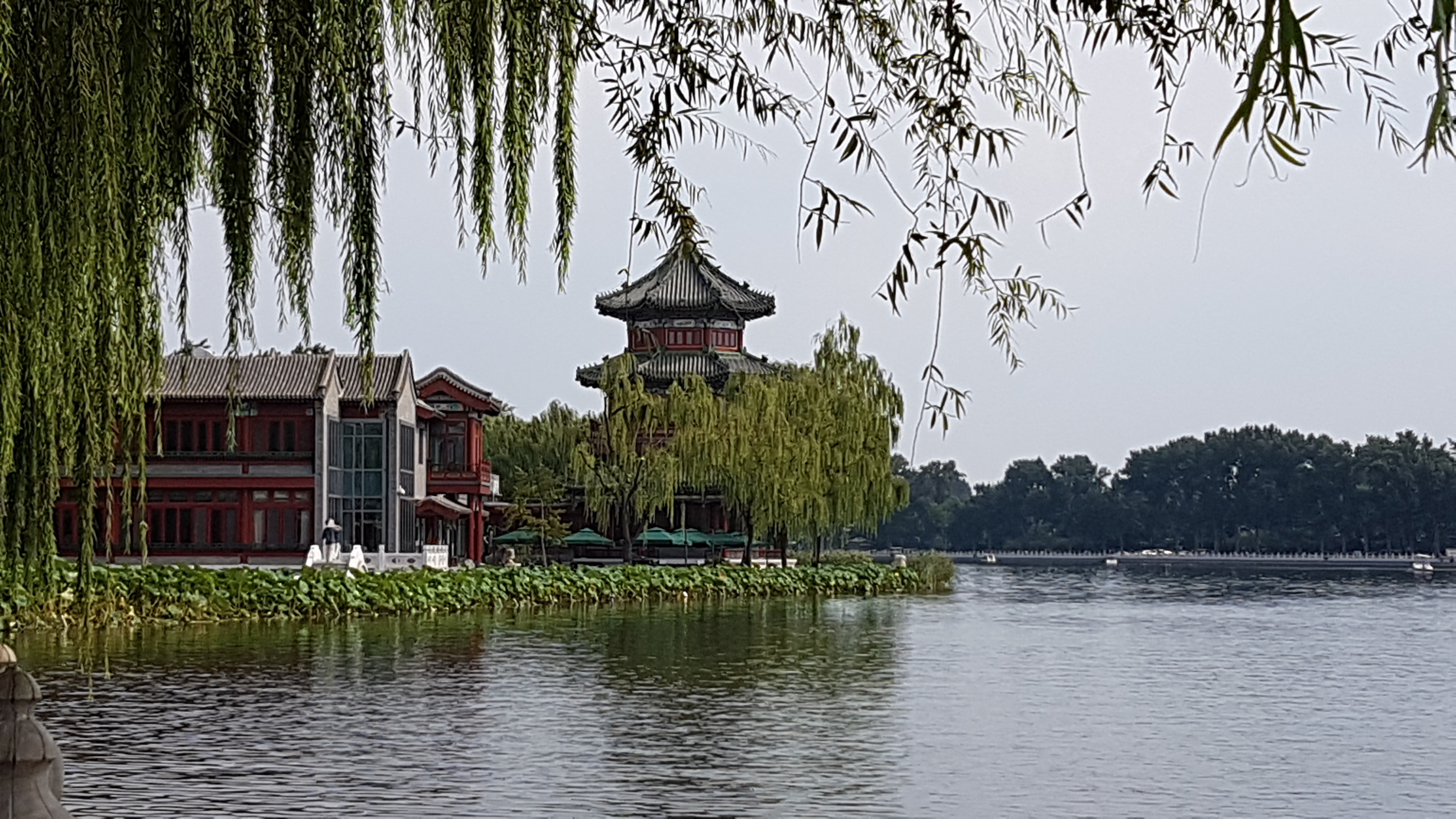 Shichahai Quarter, Beijing, China